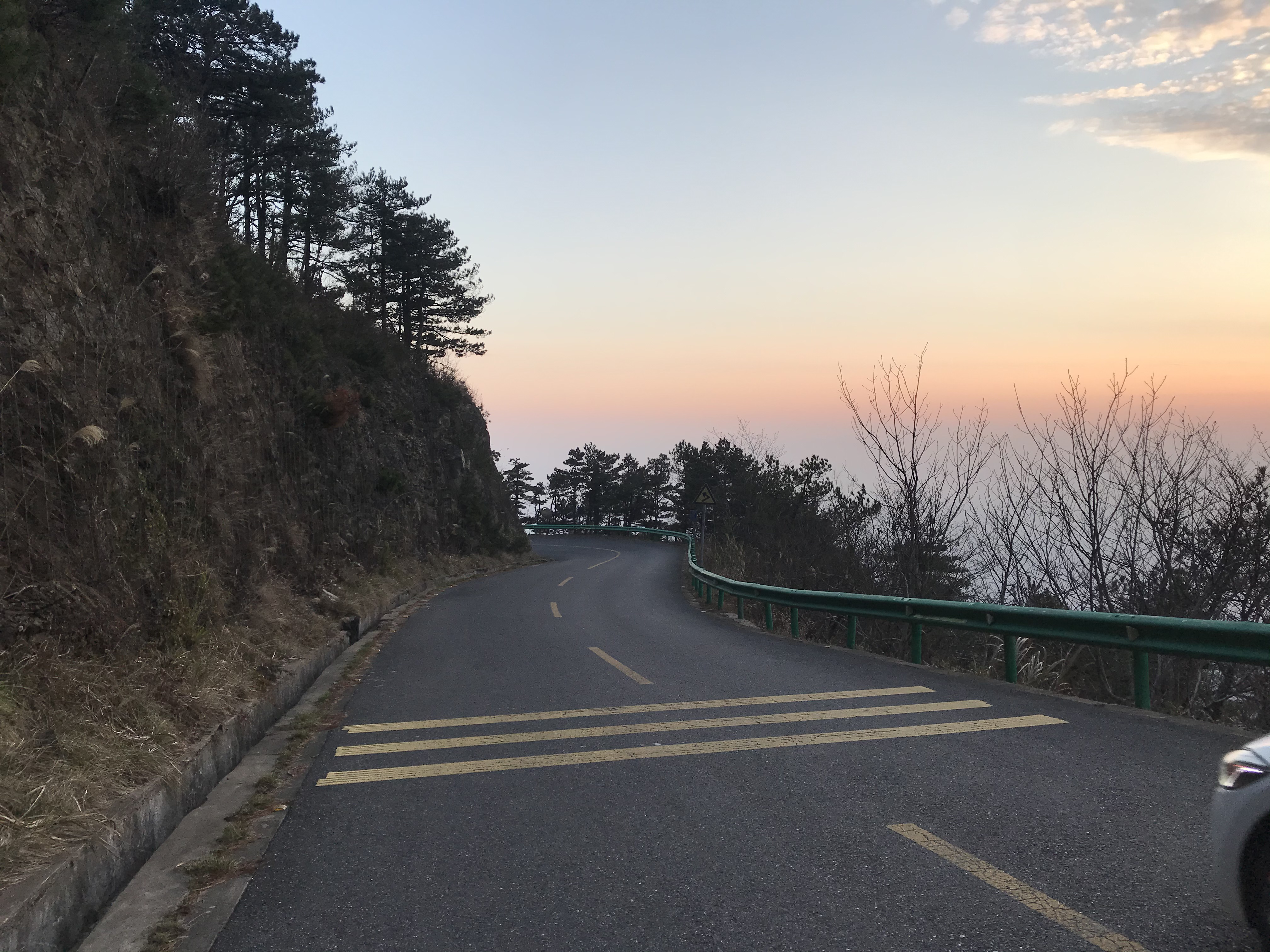 From Luodian Town to Television station